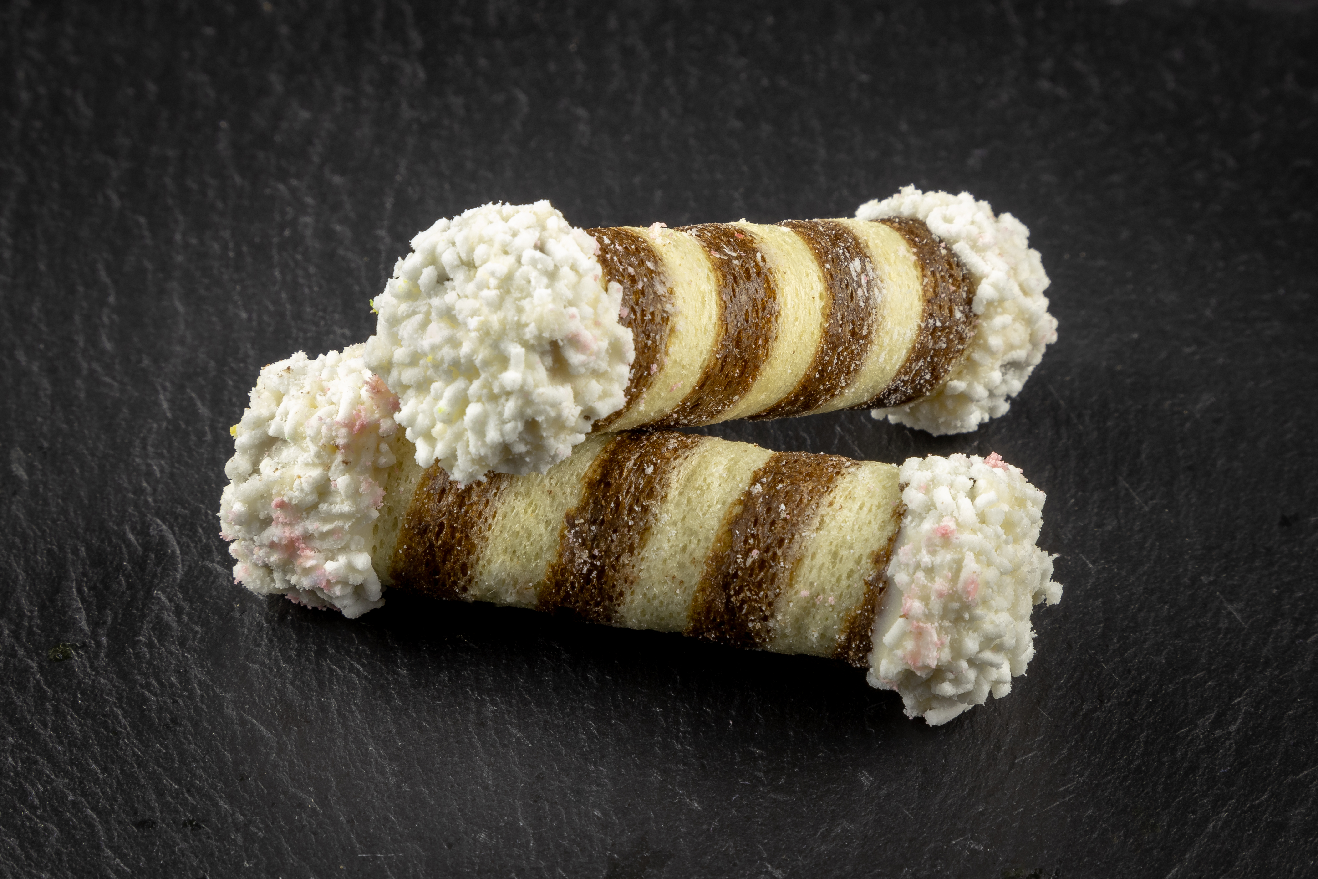 Turkish pastry with cream filling